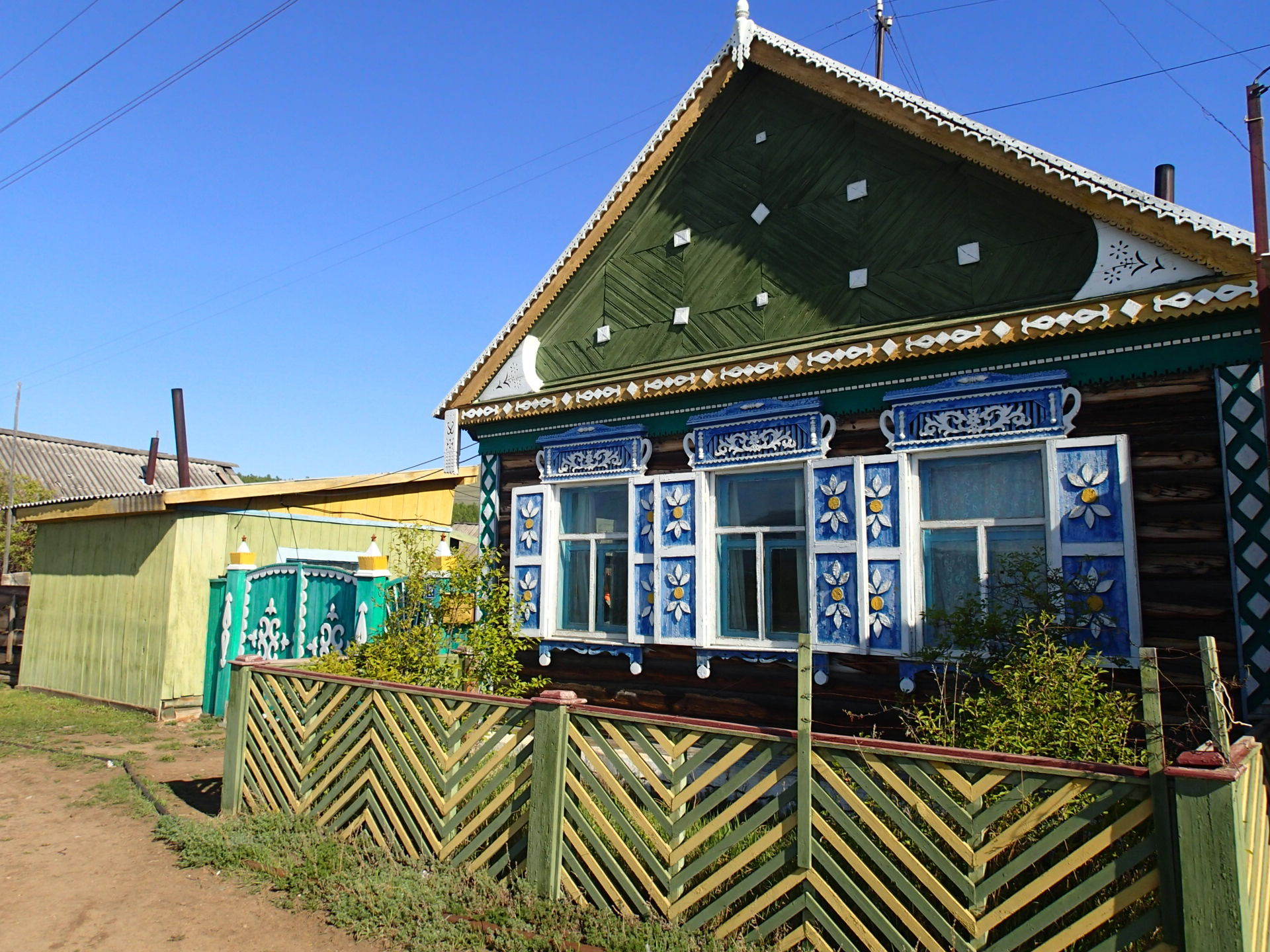 Old Russian House